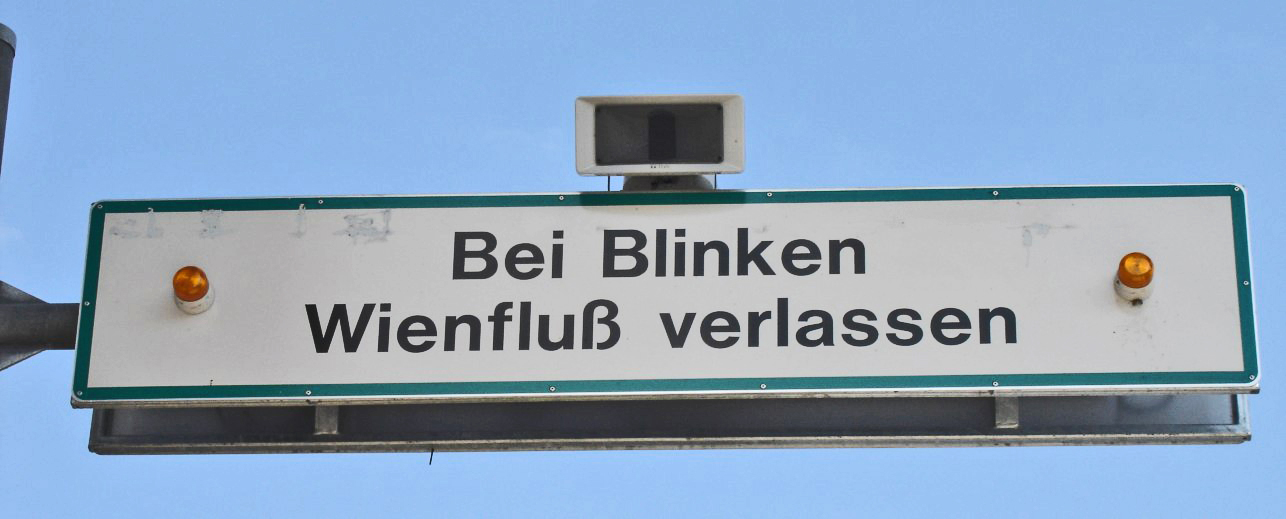 Warning sign and speaker for bicyclists and pedestrians in the concrete bed of the Wienfluß (Wien River) near Hütteldorf. The river is known for its occasional dramatic rise in water level. The sign translates to: "When blinking, leave the Wienfluß"